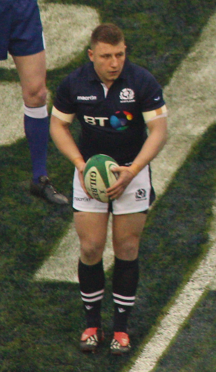 Scottish rugby union footballer during 2016 Six Nations game aganist Ireland.